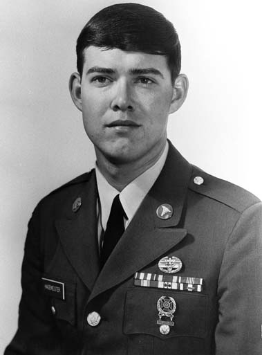 Charles Chris Hagemeister, Specialist Fifth Class, United States Army, awarded the Medal of Honor for actions in the Vietnam War